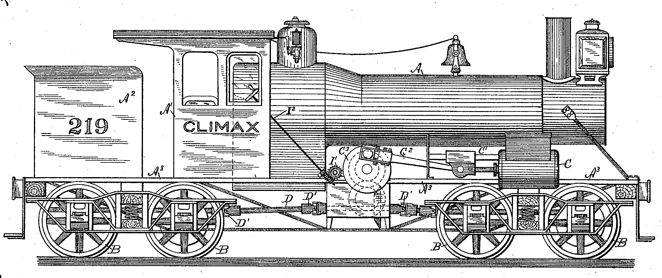 Fig. 1 of US Patent 455154 showing a Class B Climax locomotive. Index: A - Boiler A’ - Cab A2 - Tank and Coal-Box A3 - Main Frame-Work B - Wheel C - Engine-Cylinder C’ - Cross-Head C2 - Connecting-Rod C3 - Crank-Disc D - Driver or Main Shaft D’ - Universal Coupling I’ - Worm-Wheel on the Screw-Shaft operating the Gear-Shifter I2 - Worm-Shaft to operate the Gear-Shifter